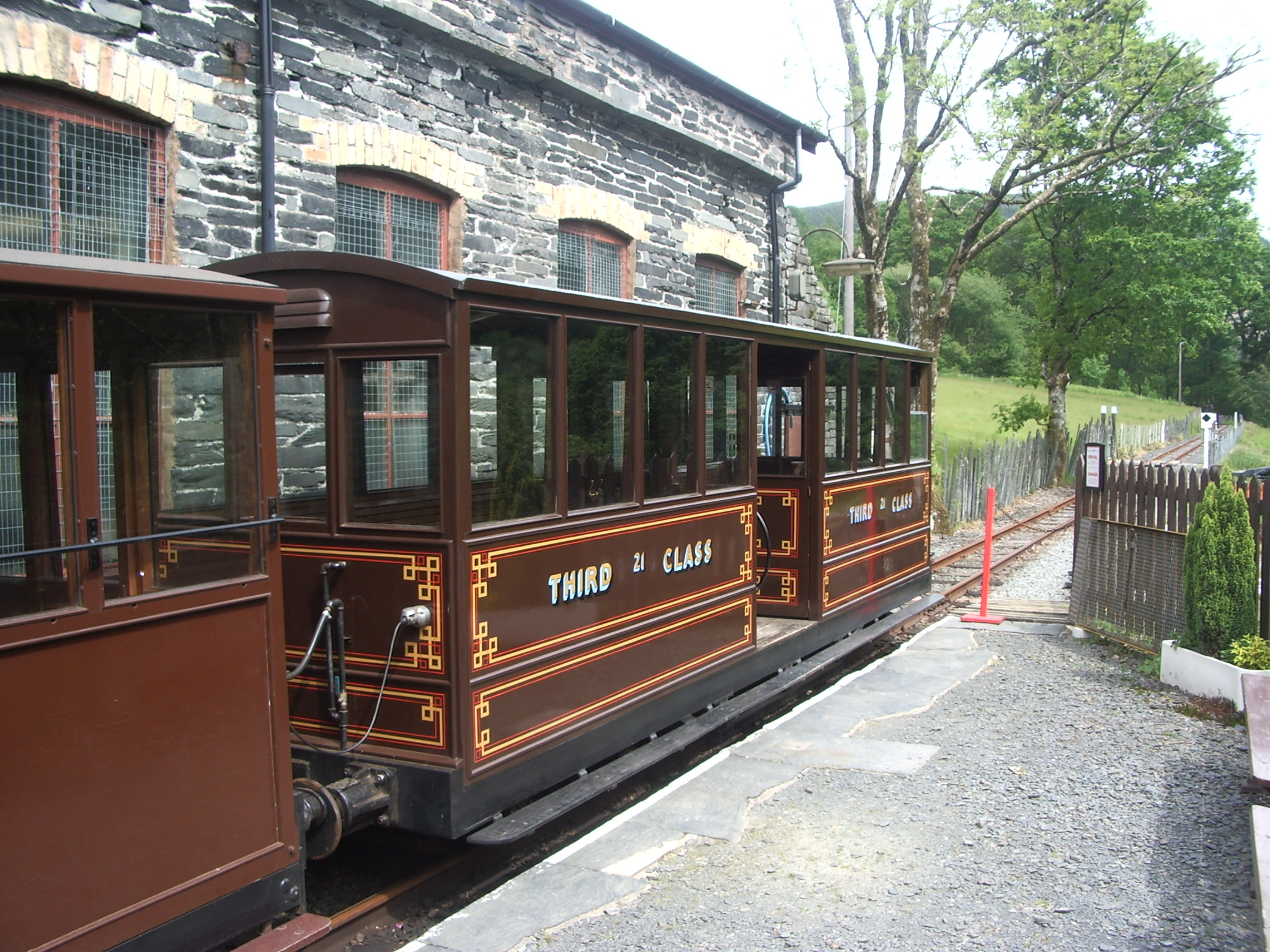 Corris Railway carriage no 21 at Maespoeth Junction May 2007